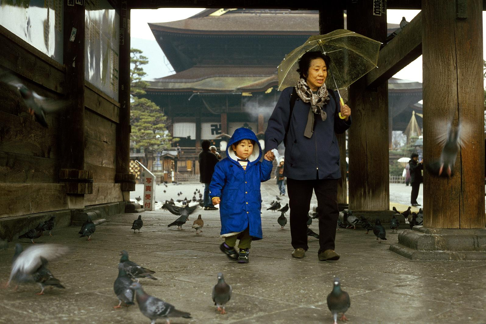 Zenkoji, a Buddhist temple in the city of Nagano, Nagano Prefecture, Japan.